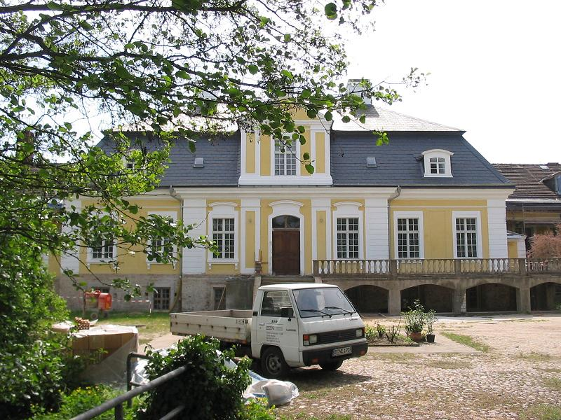 Manor house in Fredersdorf, built in 1719 by Ludwig von Oppen. Gardenpart. Art conversation and restoration in 2006. Fredersdorf is a village (part) of the town Belzig in Brandenburg, Germany.